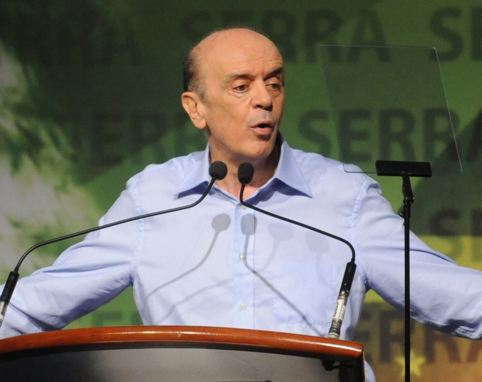 The pre-PSDB's candidate for president, Jose Serra, speaking during the national meeting of the party.